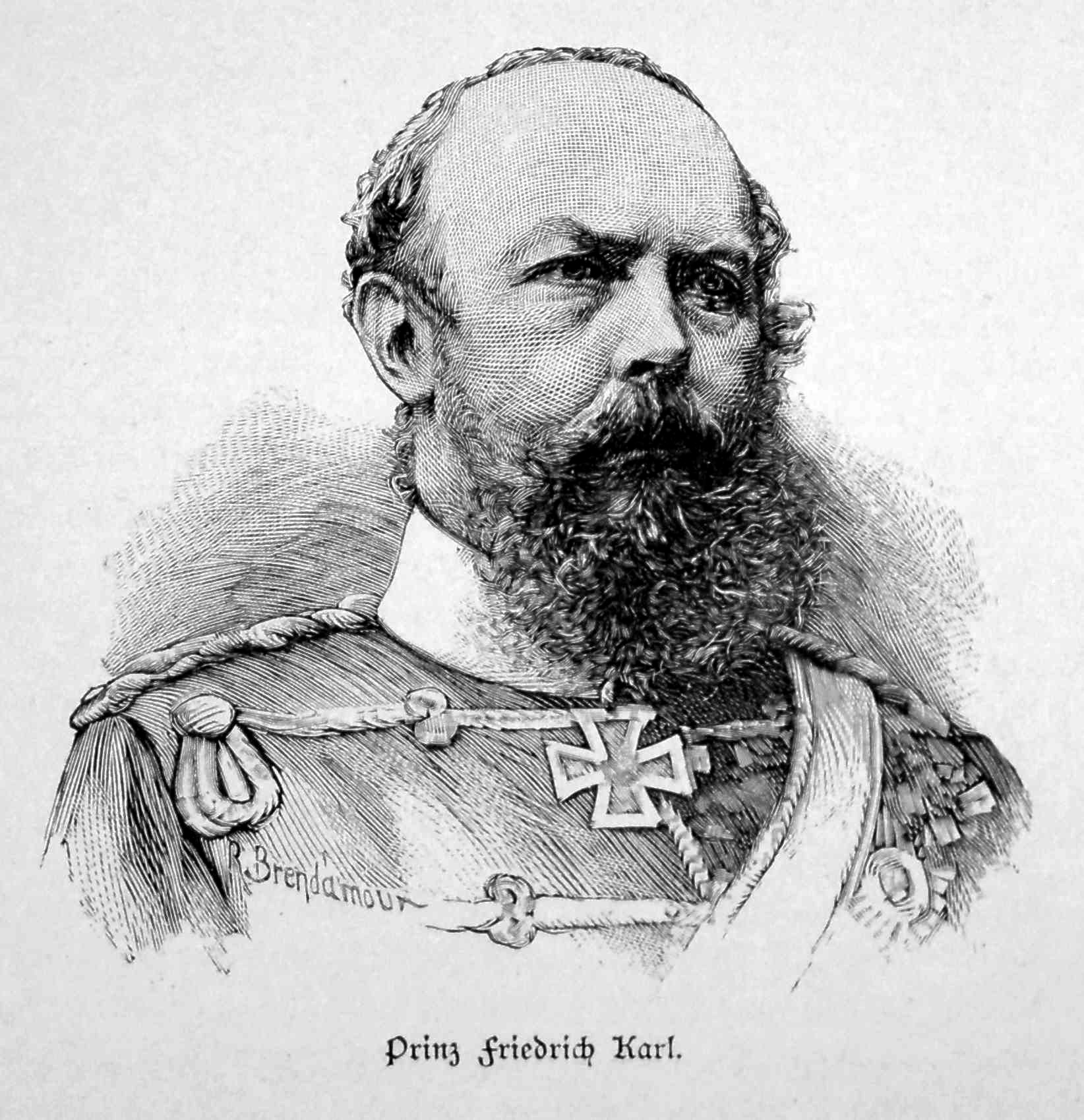 prince Friedrich Karl